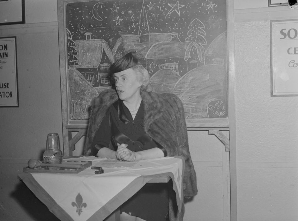 Thérèse Casgrain lectures at the Consumer's Cooperative La Famille on Saint Hubert Street in Montreal. She has a fur coat over his shoulders.